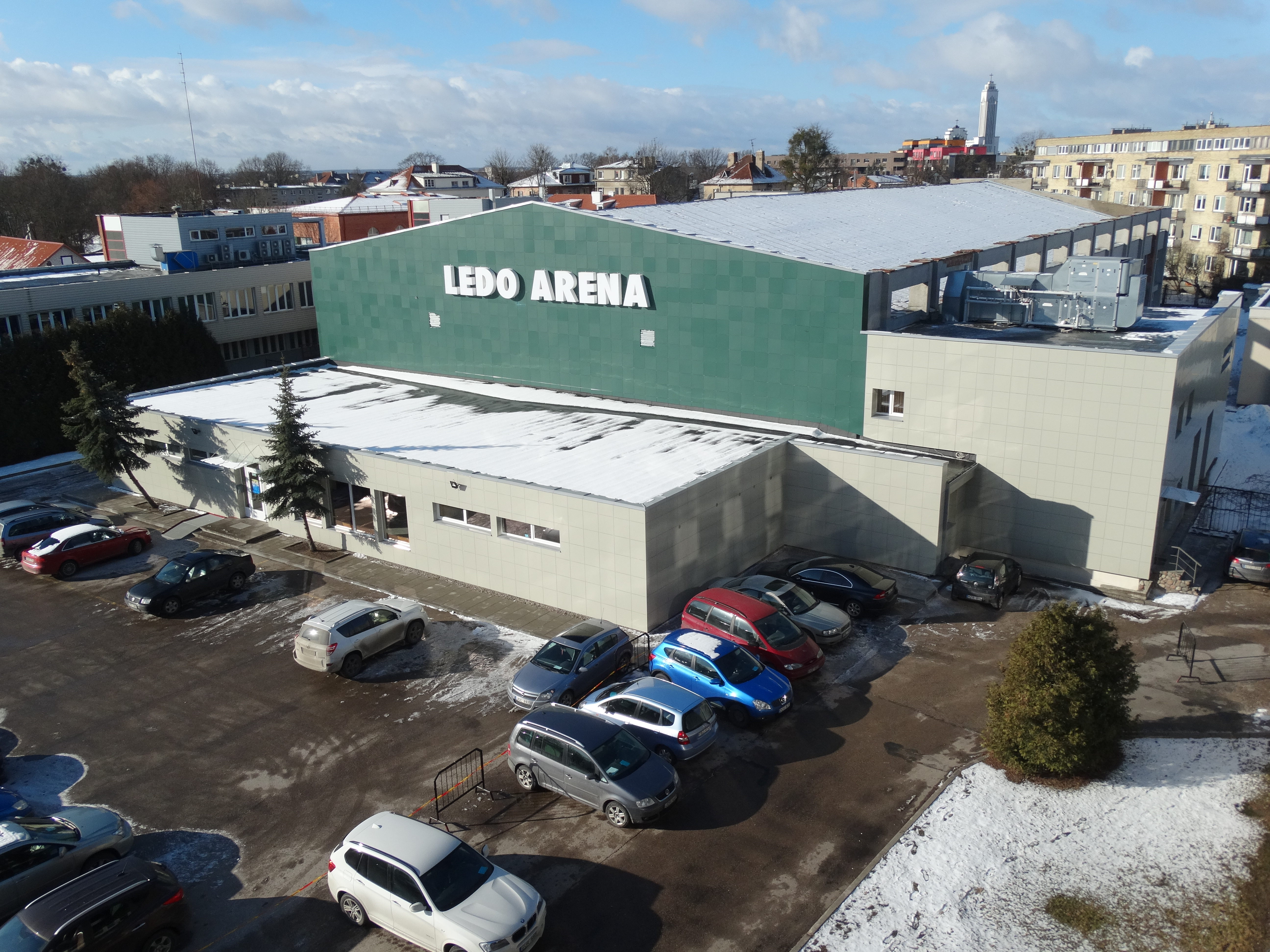 Ice arena, Kaunas, Lithuania